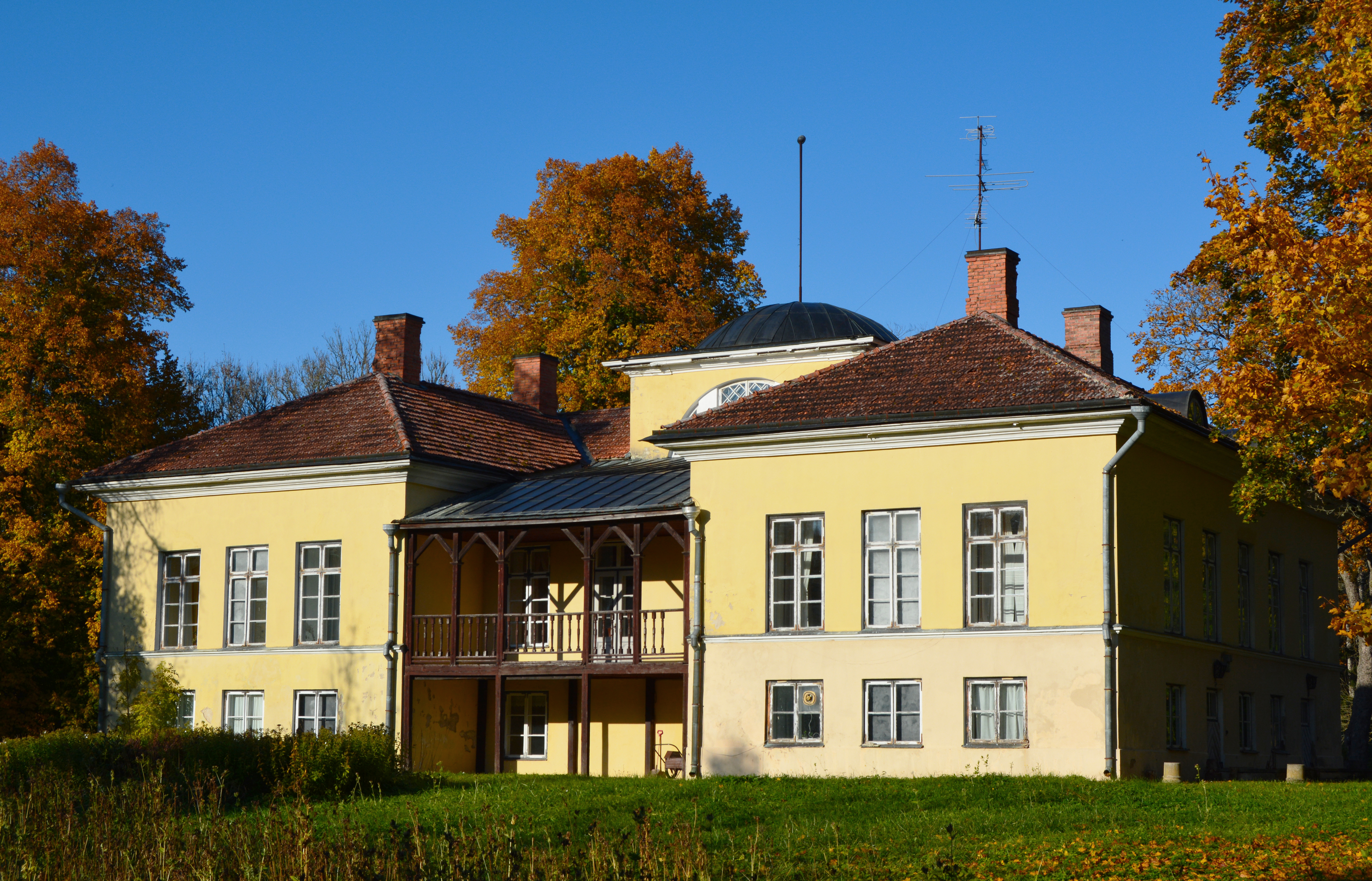 Pirgu manor main house